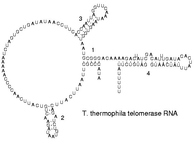 Secondary structure of a ciliate telomerase RNA.